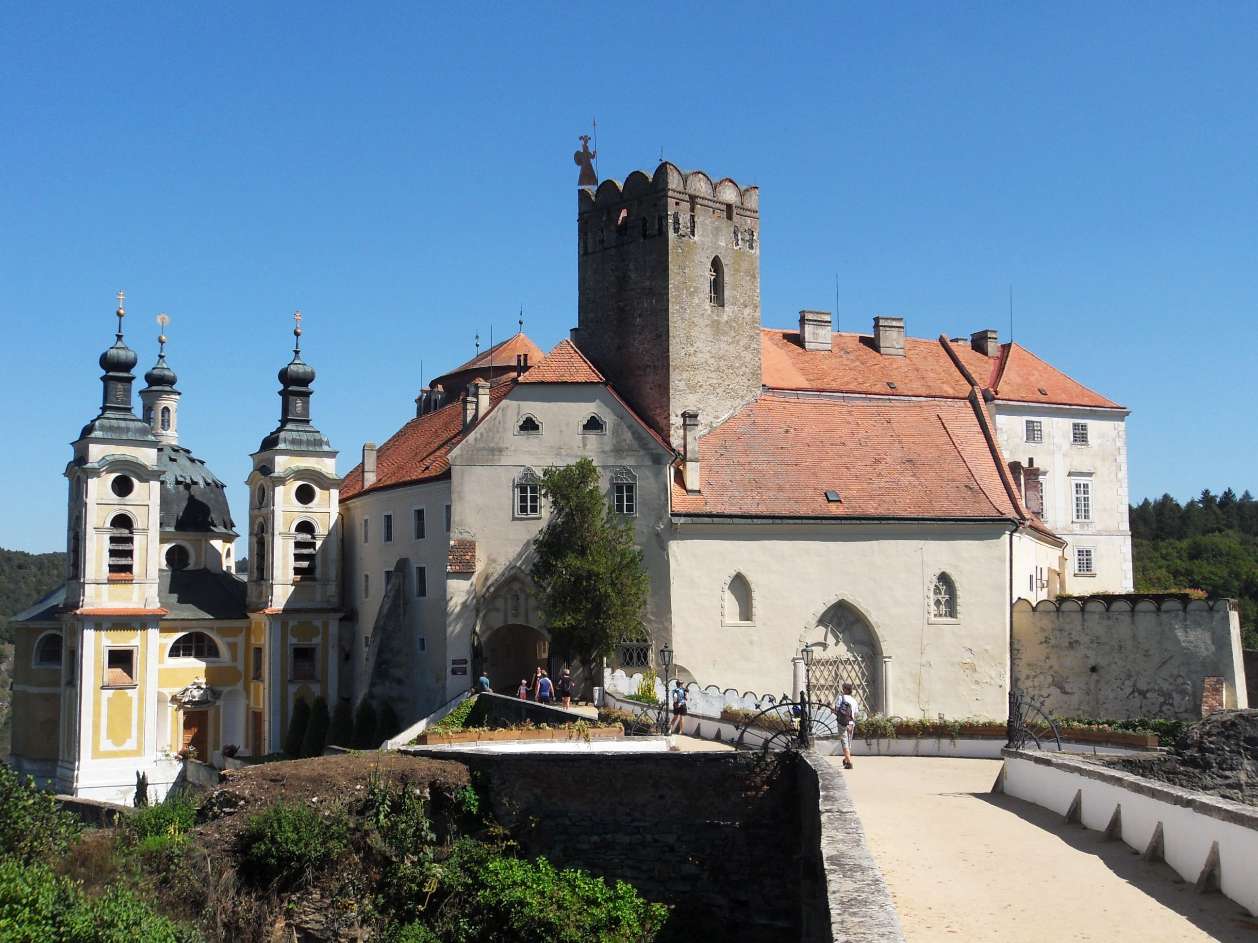 Vranov nad Dyjí castle, Znojmo district, Czech Republic